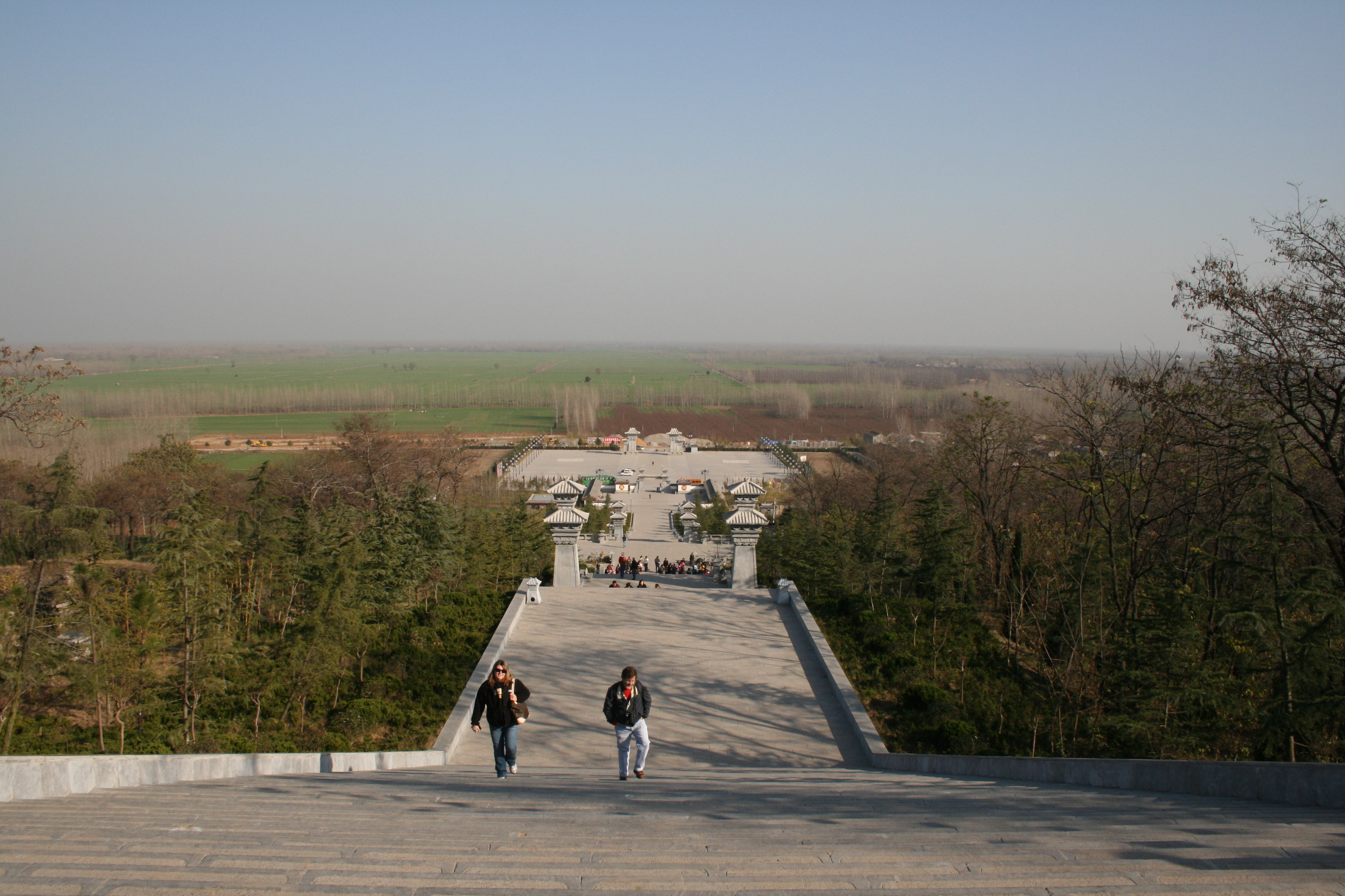 Shangqiu-Yongcheng area, eastern Henan Province. Complete indexed photo collection at .